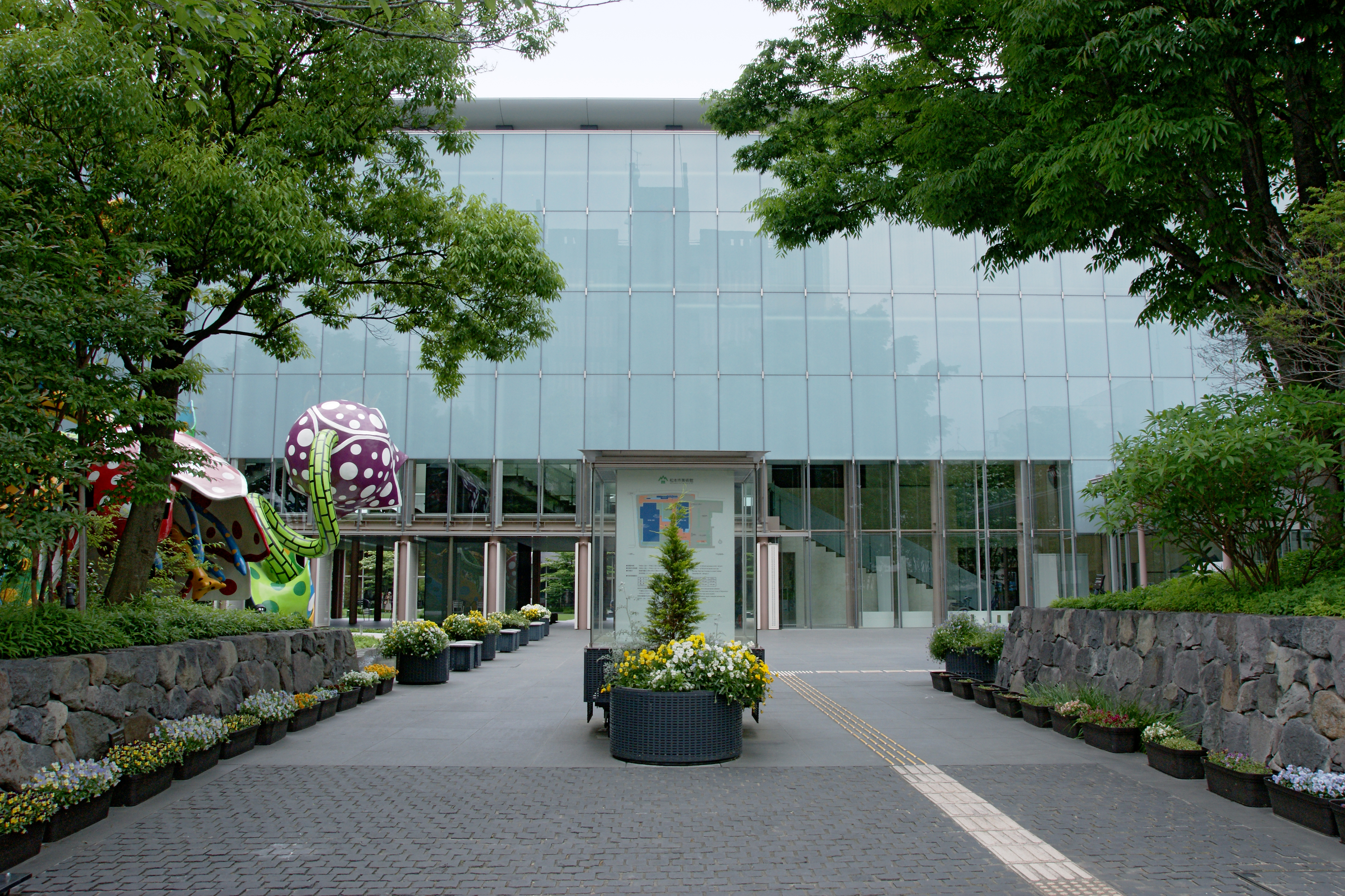 Matsumoto City Museum of Art in Matsumoto, Nagano prefecture, Japan